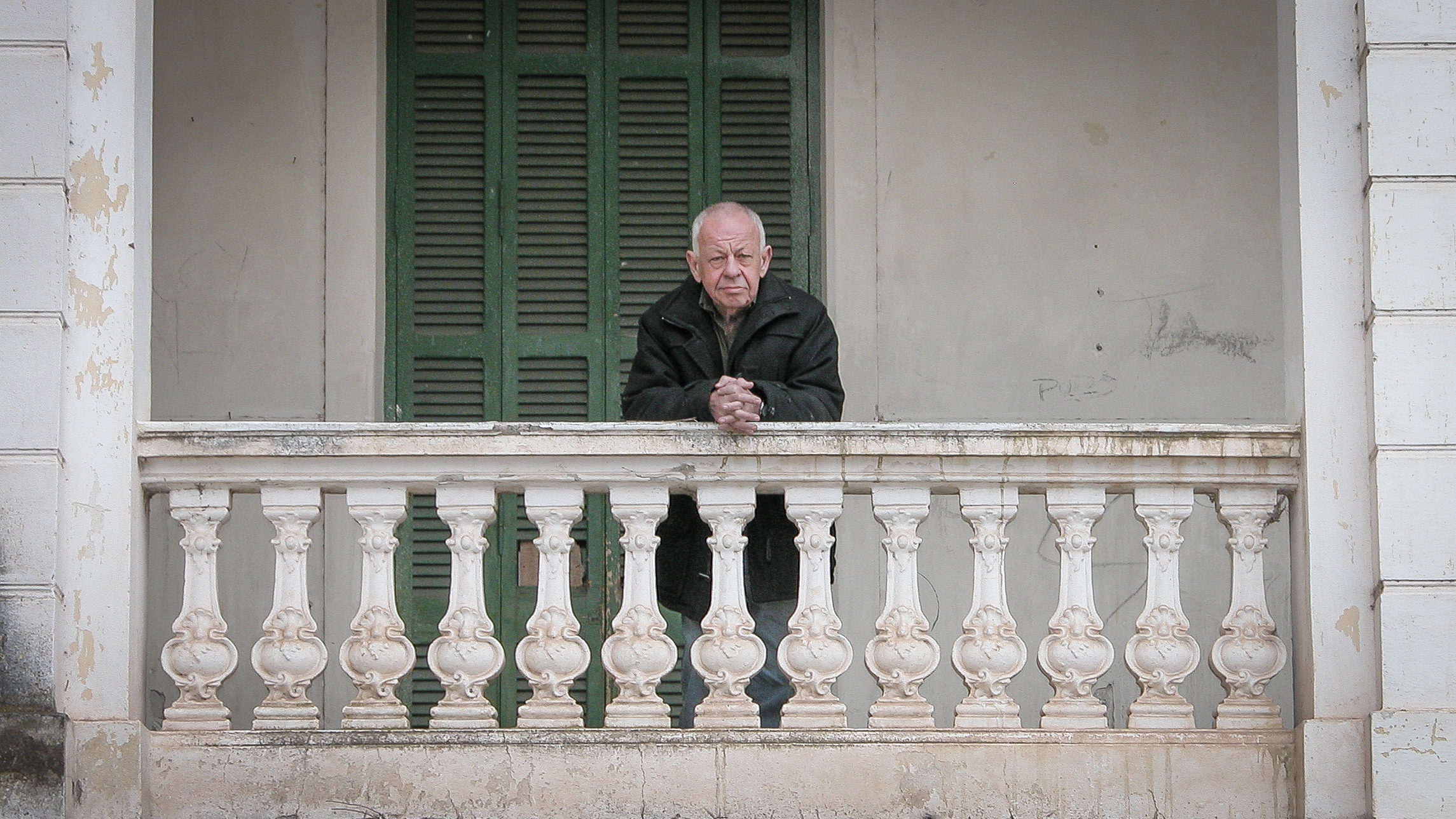 Still photo of Andres Rivera captured at Bialet Massé, Cordoba, Argentina, during the filming of “Andres Rivera Alias Marcos Ribak”, a documentary film about his life by Eduardo Montes-Bradley.